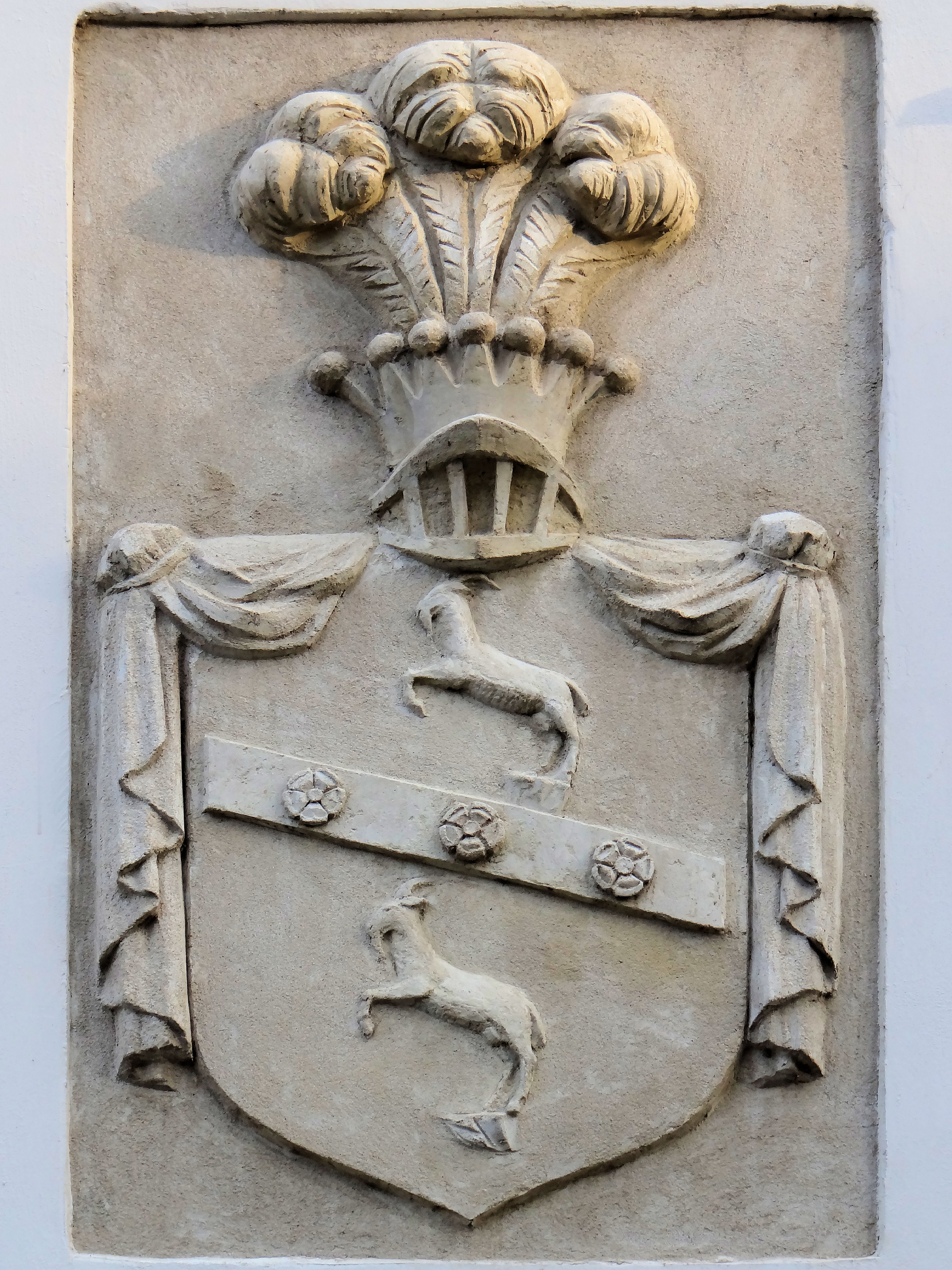 Detail of Radziejowice castle